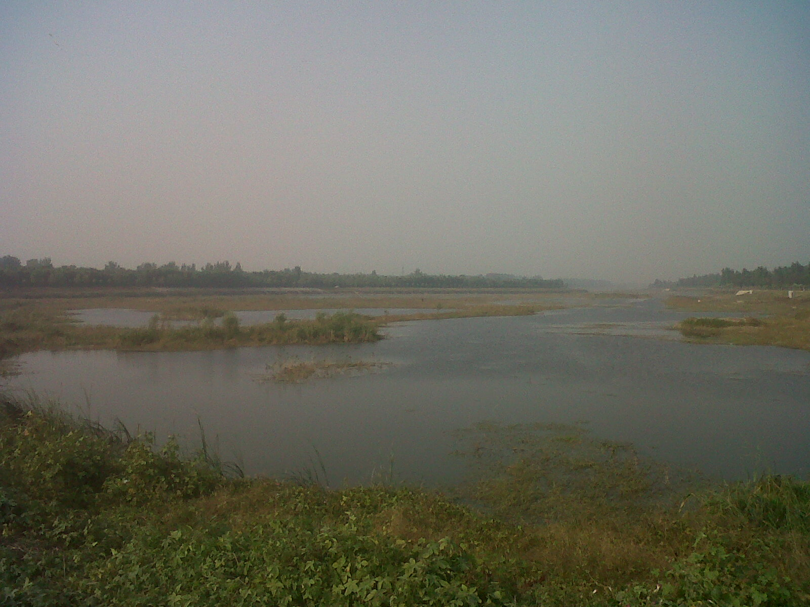 Beijing Shunyi Jianhe River & Chaobaihe River Joint Place